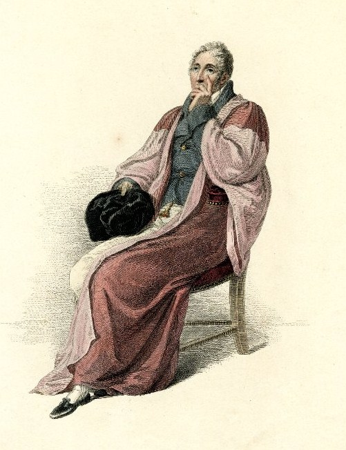 Portrait of Christopher Pegge (1765–1822), English physician.